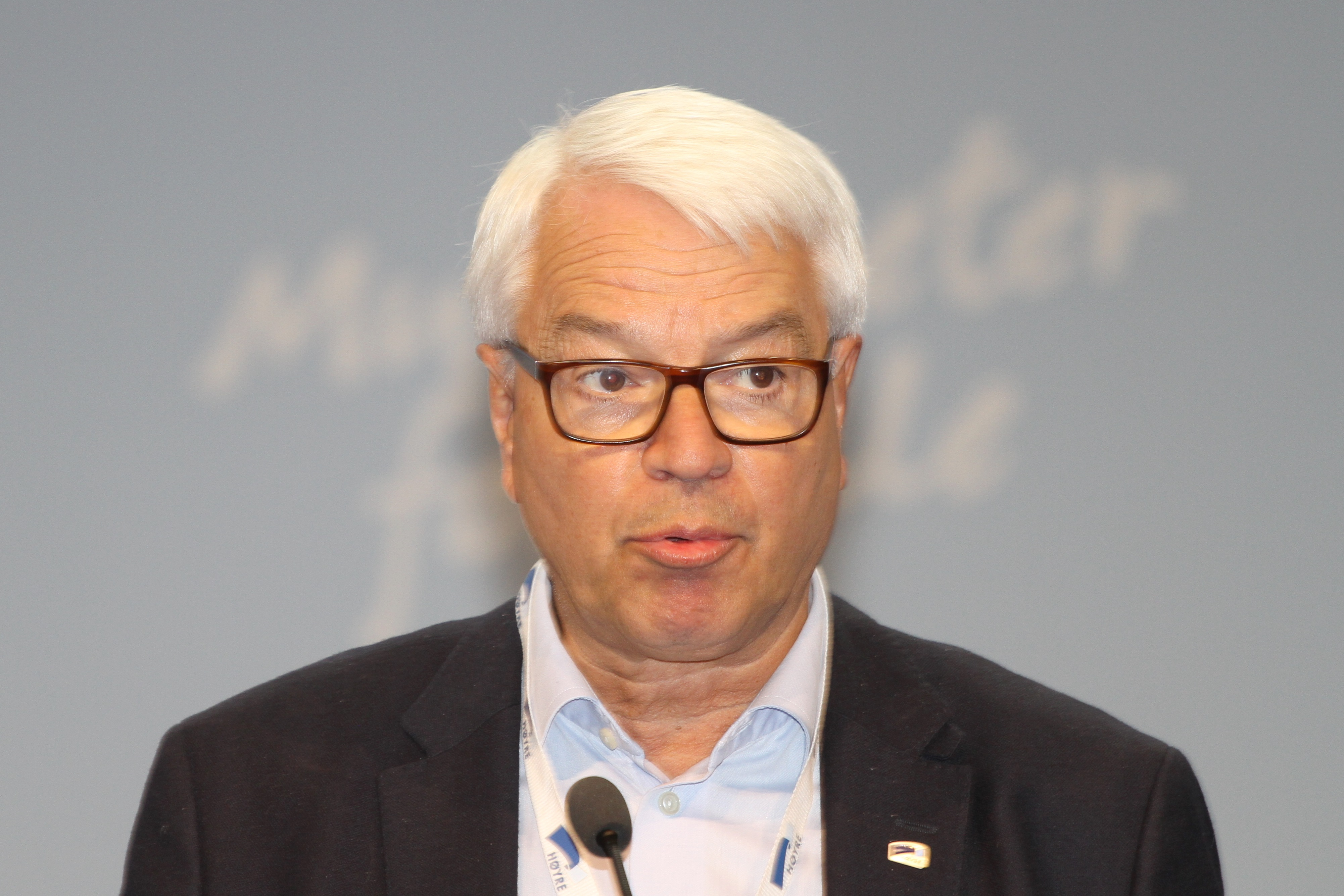 Sigurd Hille